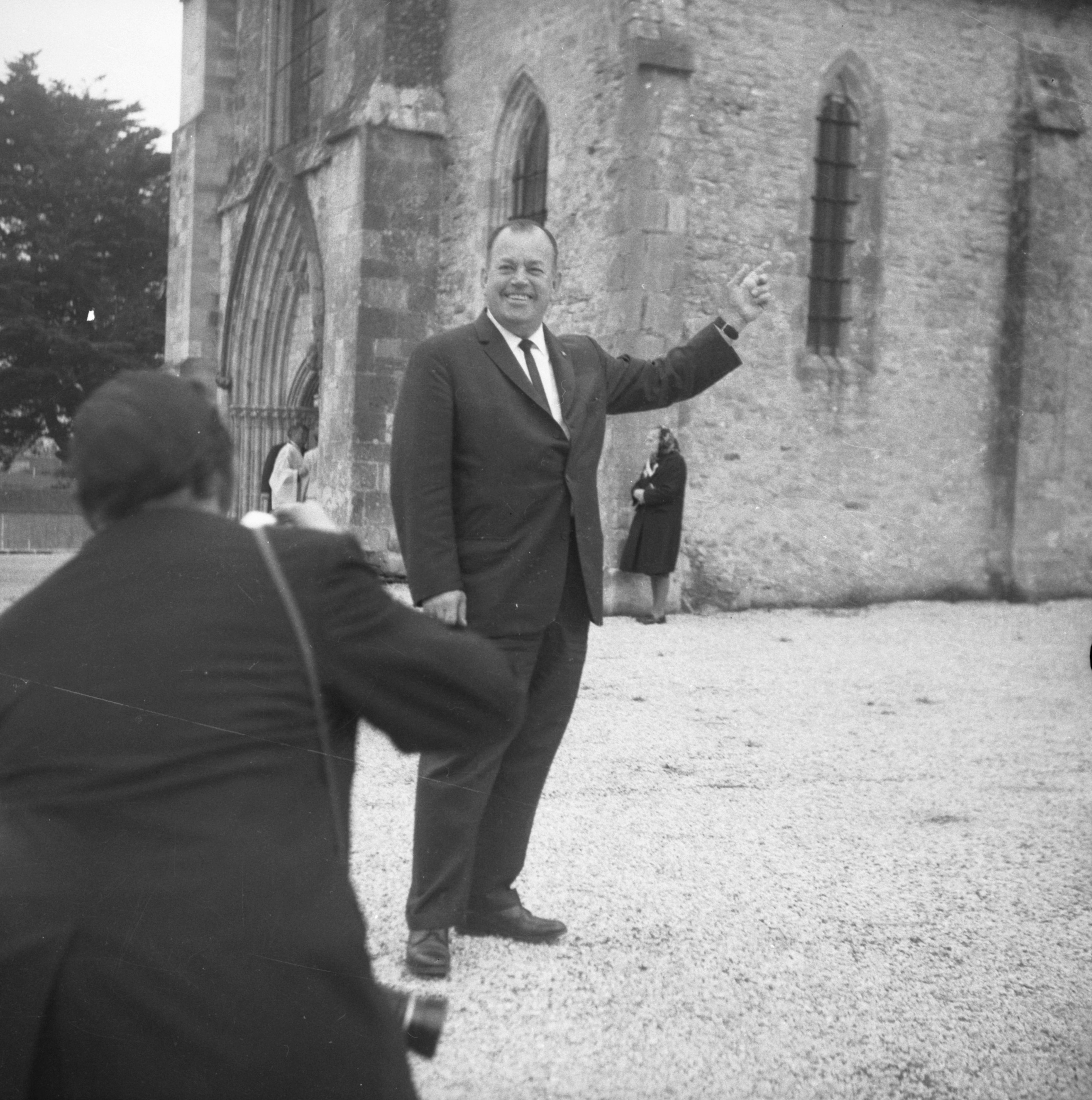 John Steele (paratrooper) returns to Sainte Mère Eglise, where he famously got caught on the church tower on the night 5th June 1944.